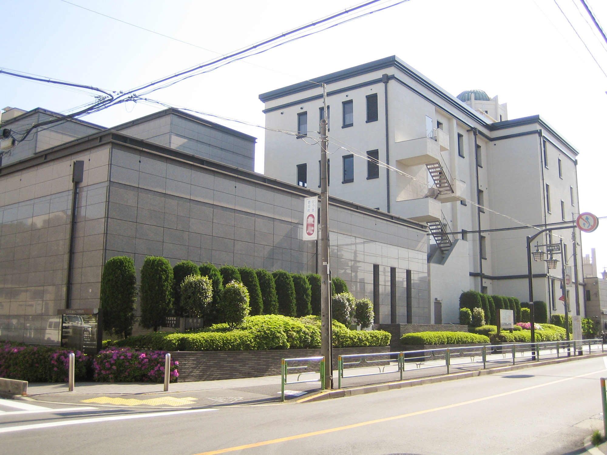 Kosei Library (佼成図書館), in Suginami, Tokyo, Japan